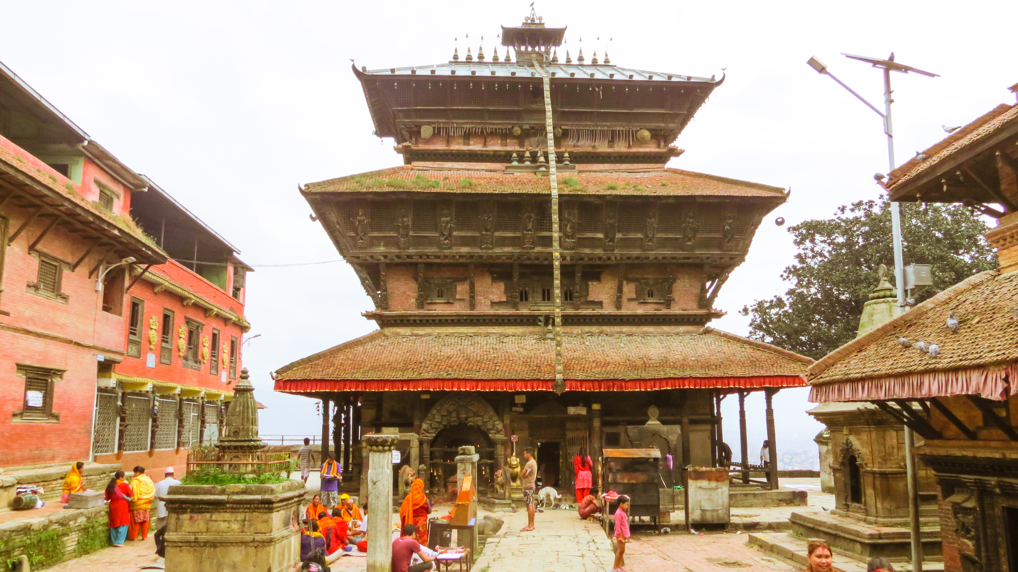 Bagh Bhairab temple is one of the most popular temples dedicated to the god Bhairab in the form of an angry tiger. This god is regarded as the guardian of Kirtipur and the locals call it Ajudeu, a grandfather god. Bhairab, the most terrifying and awful form of Shiva, is the destroyer on one hand and the guardian on the other. Ceremonial rituals in relation to the important events of life such as rice-feeding, puberty, marriage and even the construction of houses cannot be done without propitiating this deity in most of the towns and cities of Nepal.